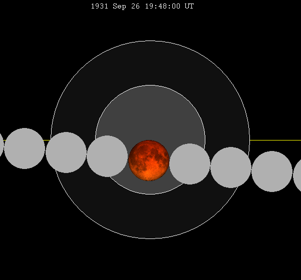 September 1931 lunar eclipse chart of moon's lunar eclipse path through the earth's shadow. thumb